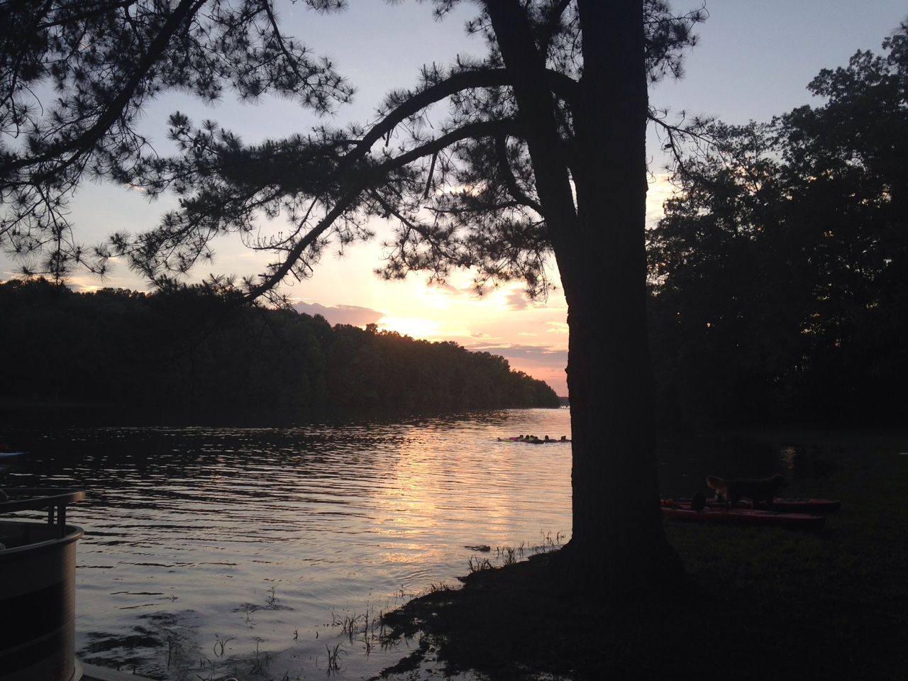 A photograph of the sunset over Tims Ford lake at the campground in Tims Ford State Park